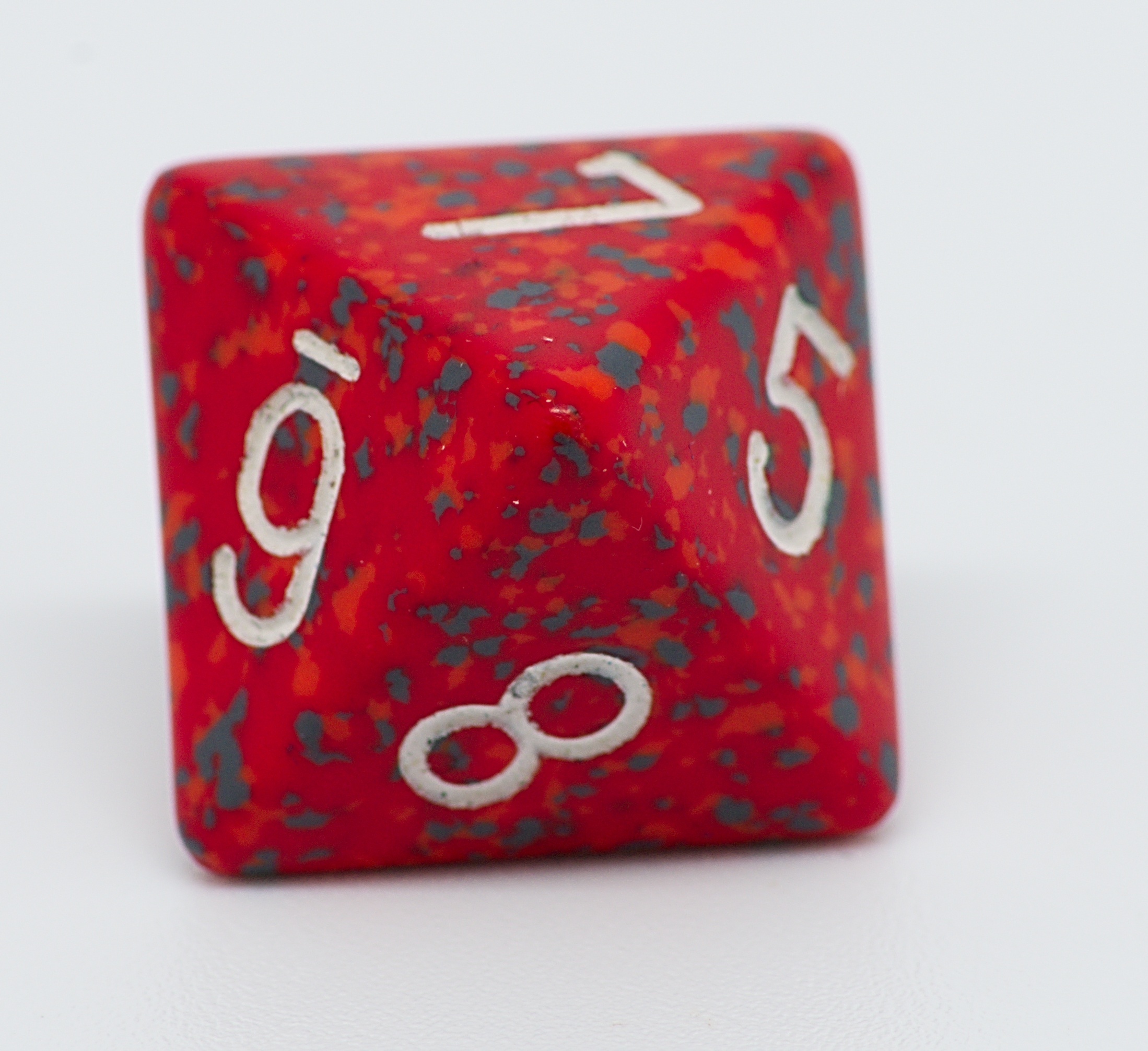 8-sided die